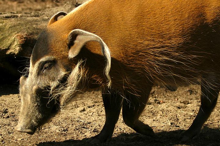 Red River Hog (Potamochoerus porcus), Suidae